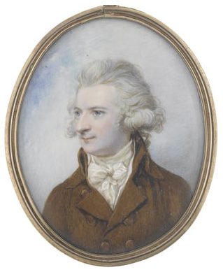 Miniature portrait of Sir James Hamlyn, 1st Baronet (1735-1811) of Edwinsford, Carmarthenshire, Wales, and Clovelly Court in Devon, Member of Parliament for Carmarthen 1793-1802 and Sheriff of Devon 1767-8. School of Richard Cosway, RA (British, 1742-1821). A full-length double portrait on paper by Cosway of the Hamlyns, walking arm in arm and wearing Van Dyck costume, exists in the Victoria & Albert Museum (E.11-2002). Gold frame with pierced suspension loop, blue glass to the reverse. Oval, 85mm (3 3/8in) high. One of pair with matching portrait of his wife, Arabella Williams (1740-1797). Sold for £1,375 inc. premium at Bonhams Auctioneers, Knightsbridge, London, auction 20767: Fine Portrait Miniatures, 30 May 2013, lot 98[1]